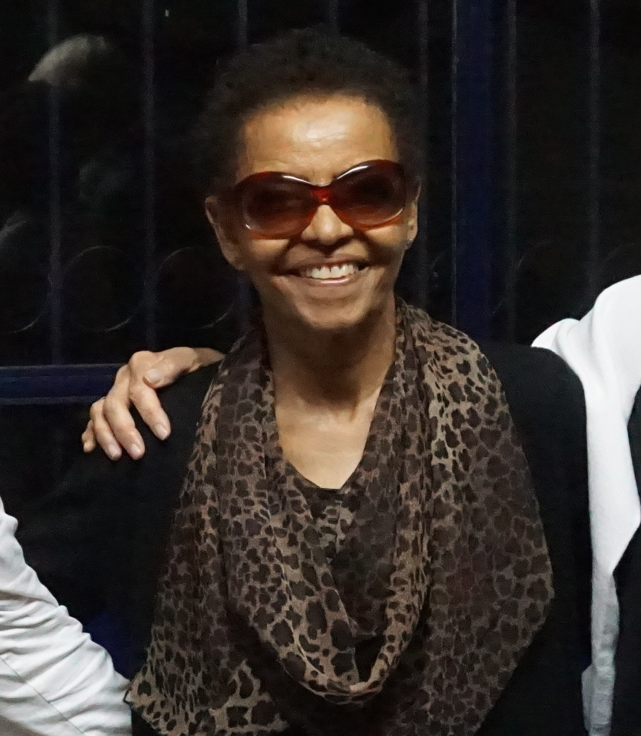 (left to right) Belgian Ambassador to Ethiopia Didier Nagant, former Finnish Ambassador to Ethiopia Kirsti Aarnio, KMG Founder Bogeletch Gebre, U.S. Ambassador to Ethiopia Patricia Haslach, and former EU Delegation Ambassador Timothy Clark meet at the KMG compound in Durame at the start of the annual celebration.